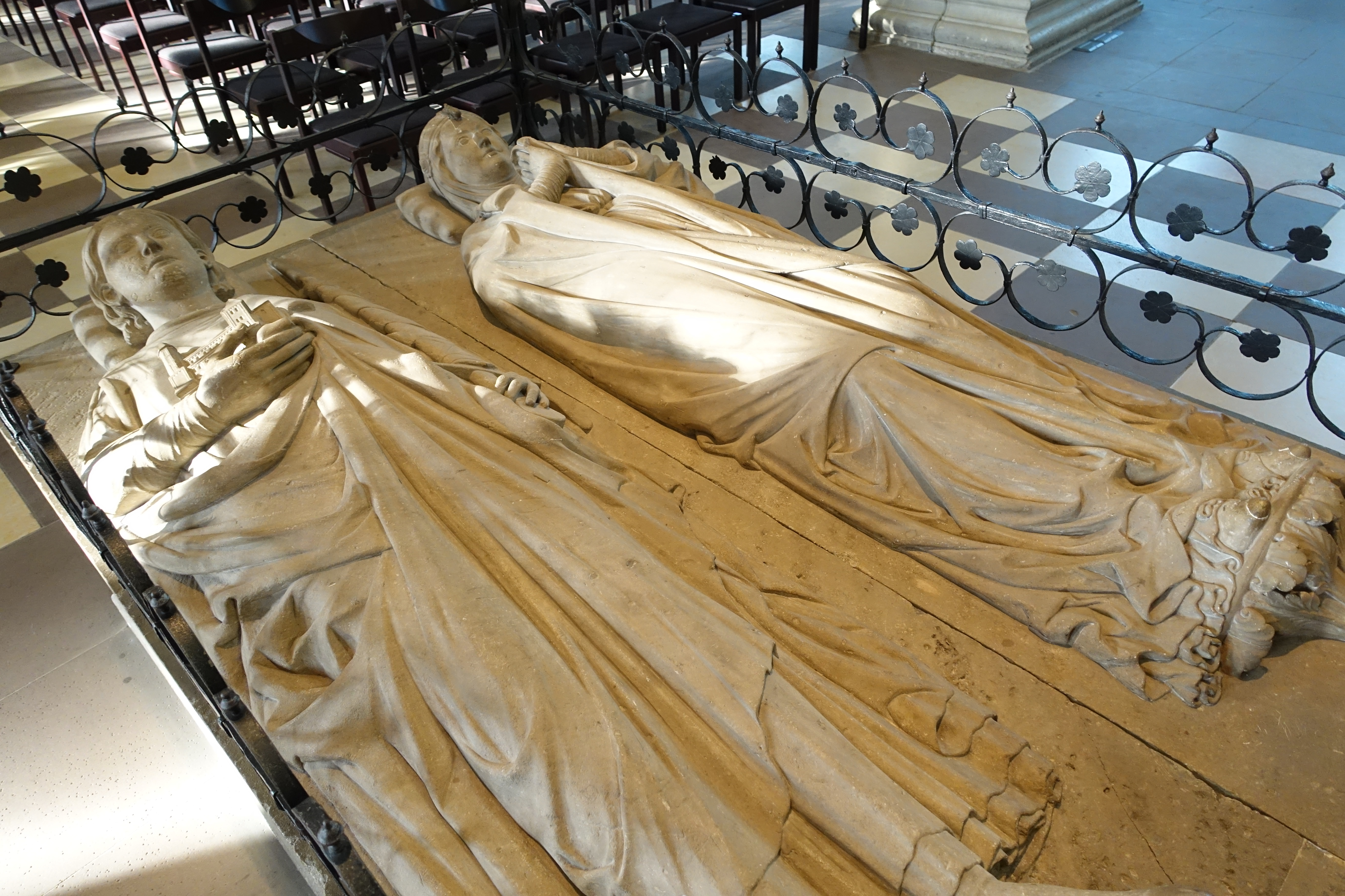 Tomb of Henry the Lion and Matilda of England - Brunswick Cathedral - Braunschweig, Germany.